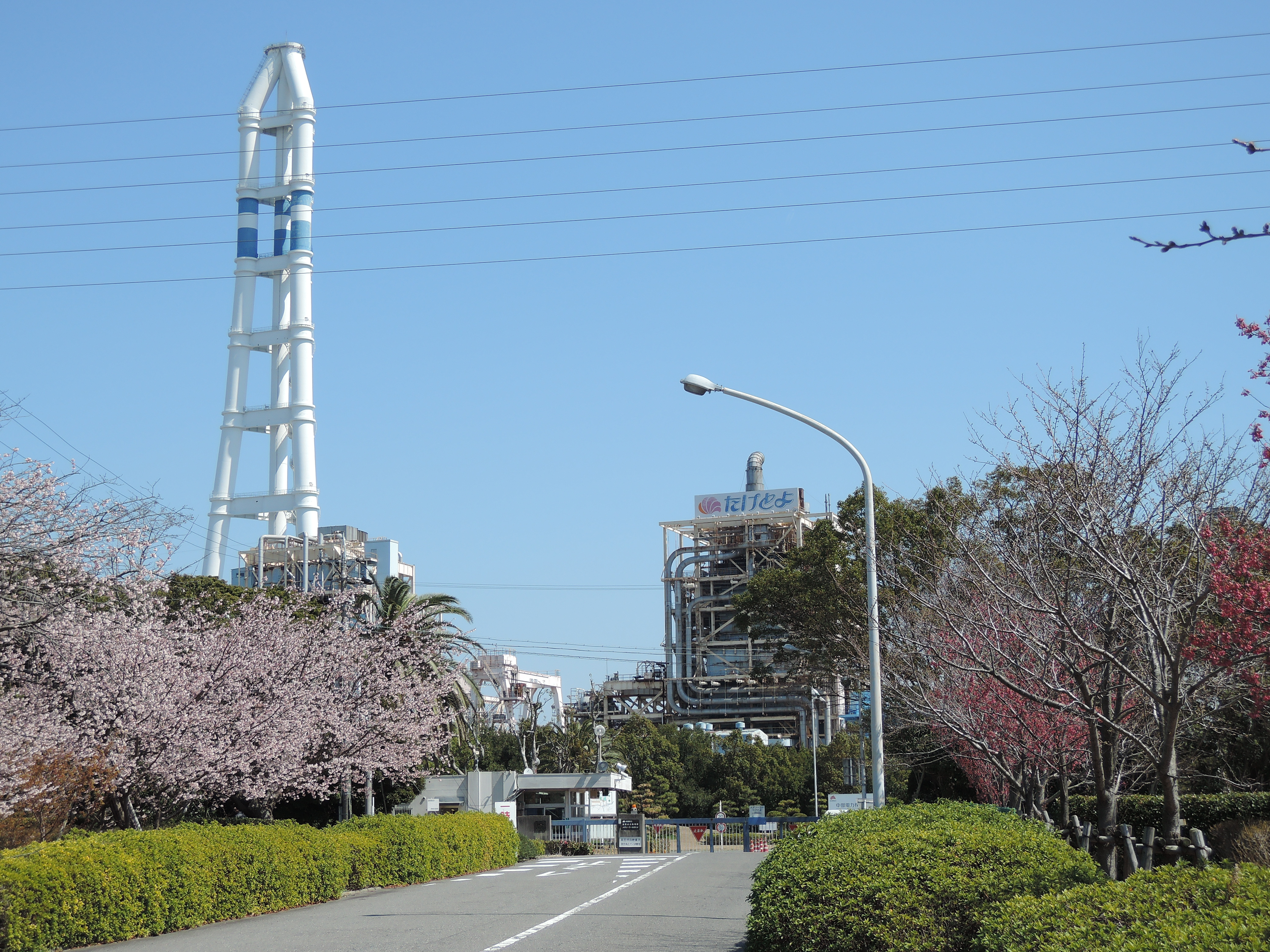 Taketoyo Thermal Power Station ,Aichi prefecture, Japan